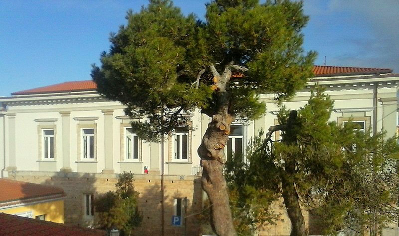 Bevere-Gambacorta Palace in Ariano Irpino, Italy